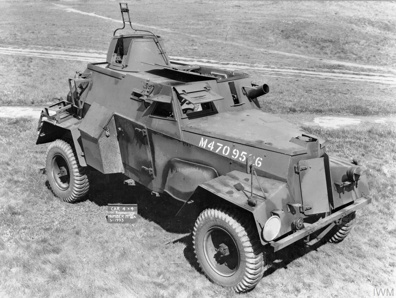 Description: Humber light reconnaissance car Mk IIIa. Copyright: Crown copyright Access: Unrestricted